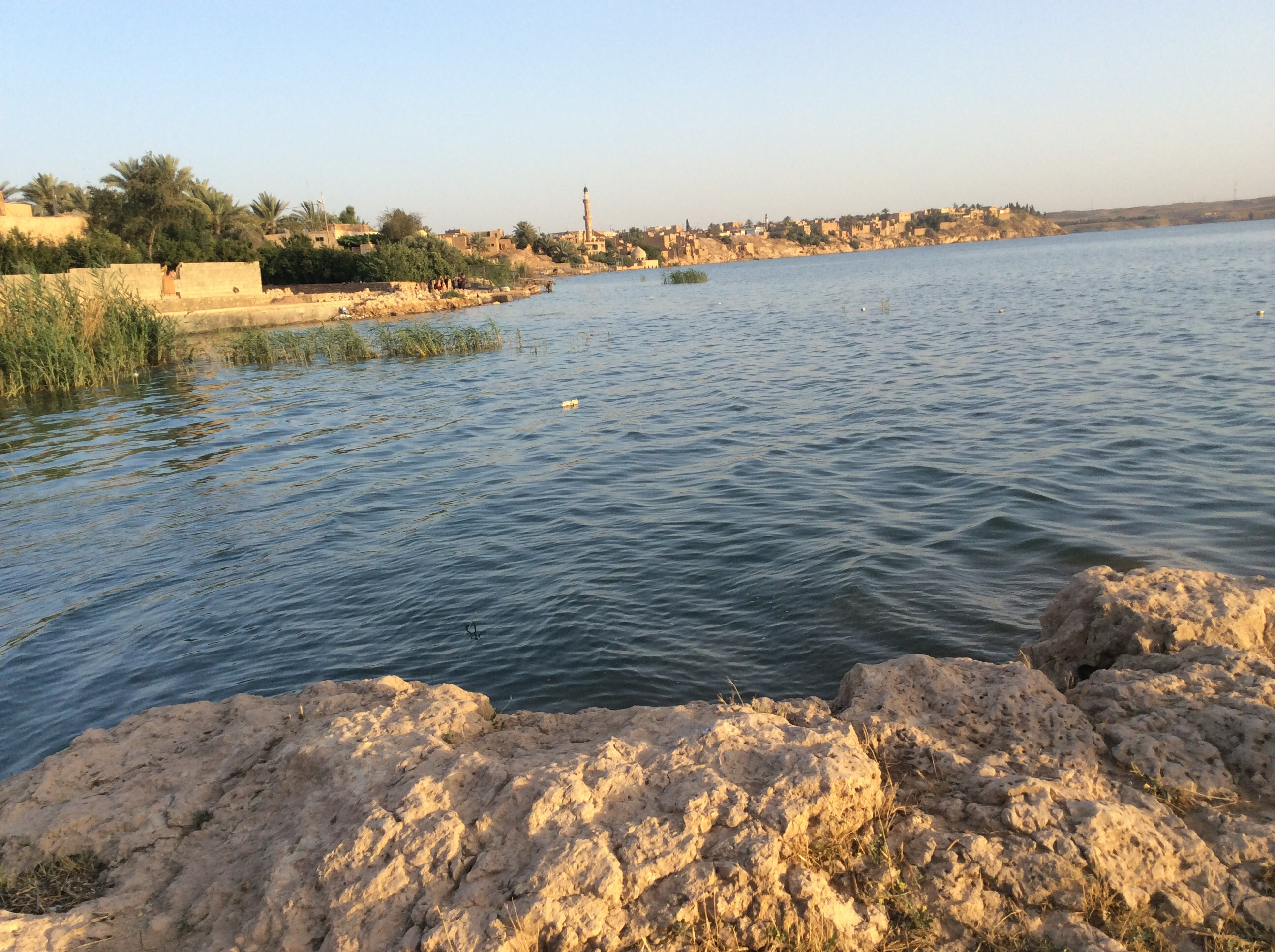 Euphrates in Rawa